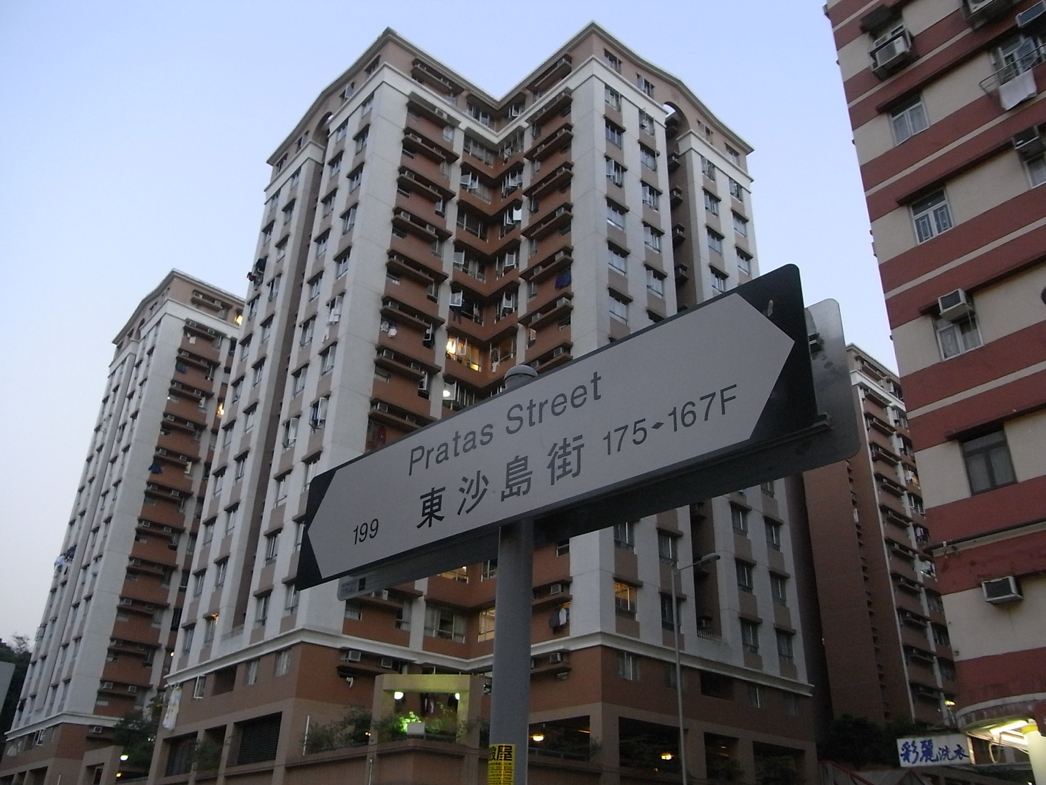 深水埗 樂年花園 保安道 東沙島街